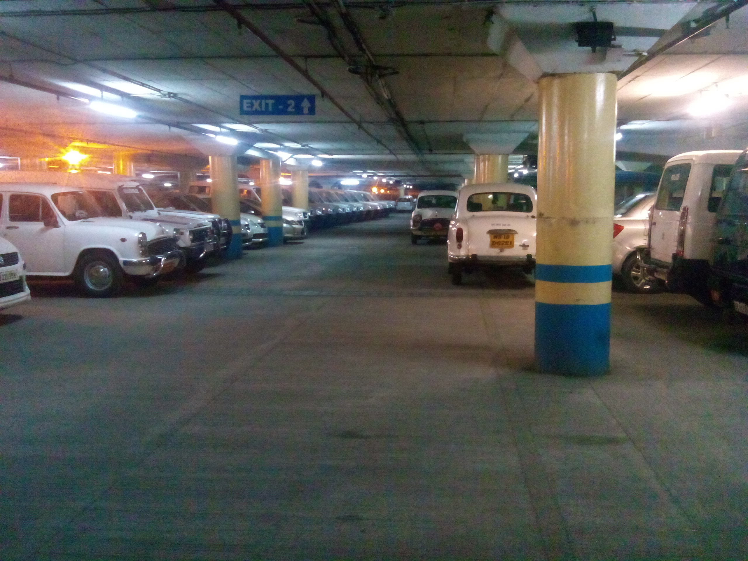 Writers building underground parking plaza in Kolkata